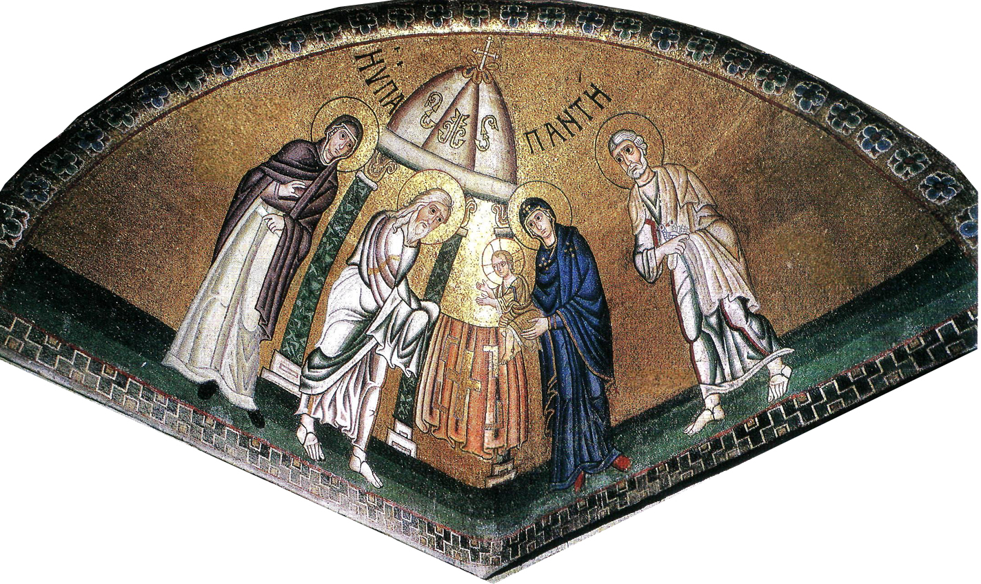 Mosaics in Hosios Loukas Monastery, Boeotia, Greece